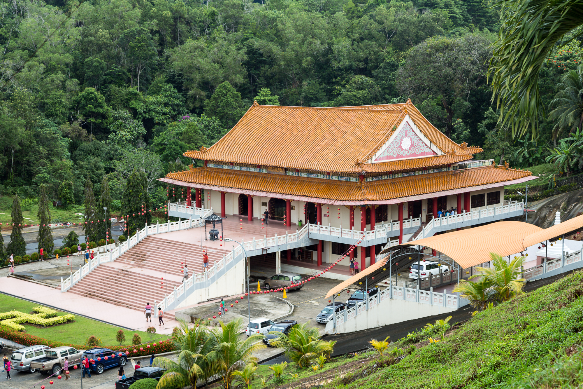 Sandakan, Sabah: Puu Jih Shih Temple (also known as Bu Tzi Shih or Puu Jih Syh Temple) during CNY 2013